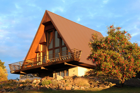 An A-frame house in Duluth, Minnesota, USA.